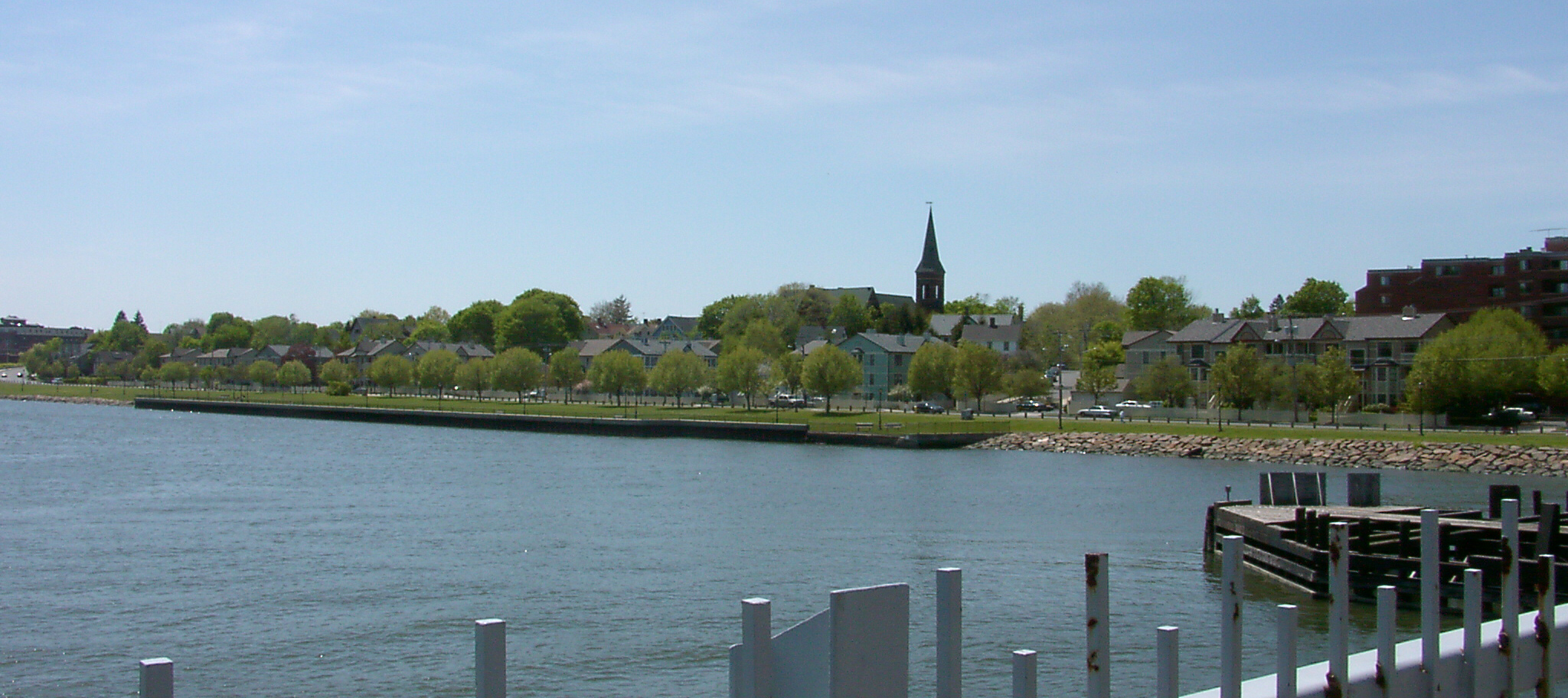 Picture taken by me in May 2005; public domain with no strings attached.